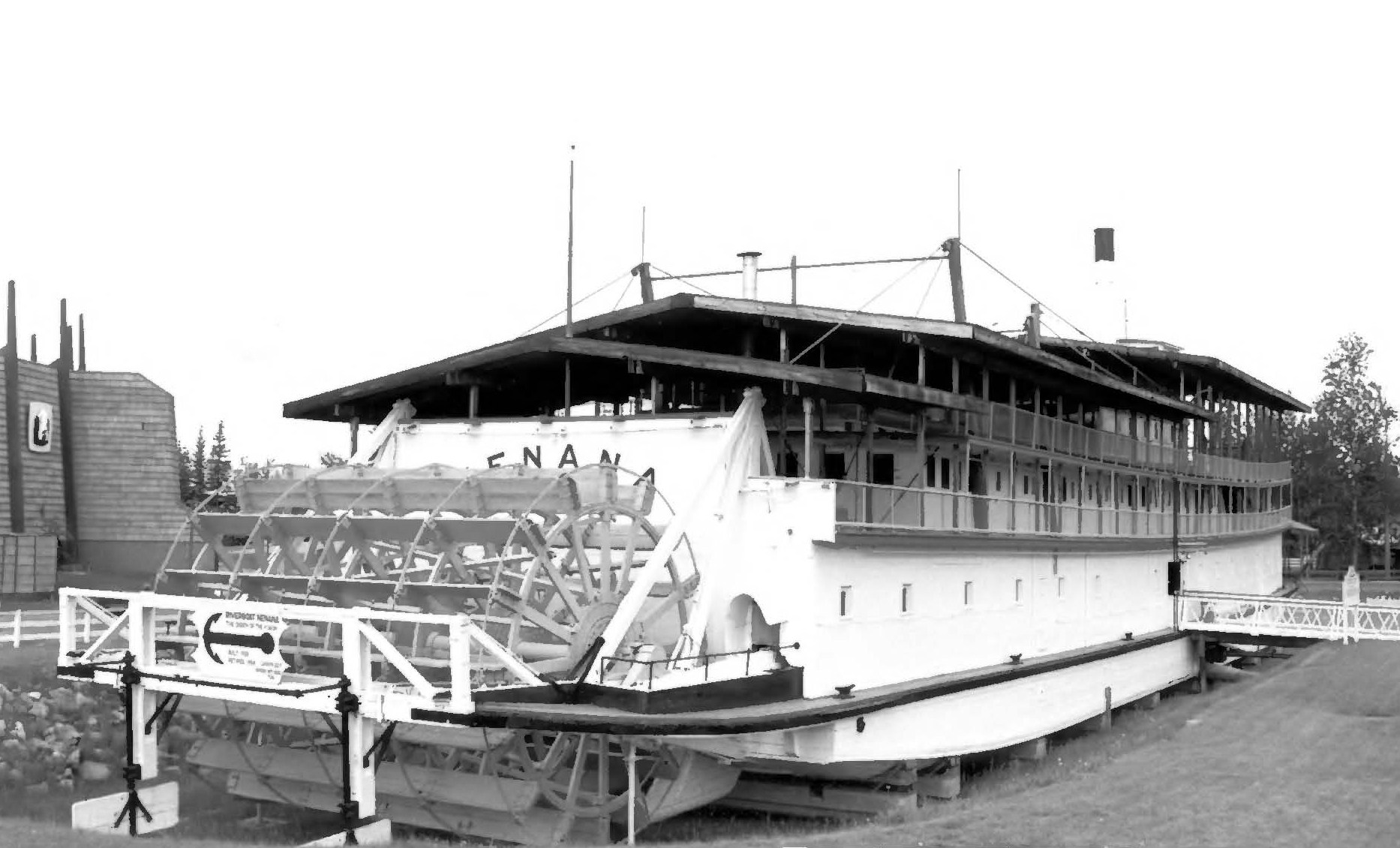 Nenana (steamer) Fairbanks, Alaska cropped This image or media file contains material based on a work of a National Park Service employee, created as part of that person's official duties. As a work of the U.S. federal government, such work is in the public domain in the United States. See the NPS website and NPS copyright policy for more information. Object location64° 50′ 19″ N, 147° 46′ 20″ W